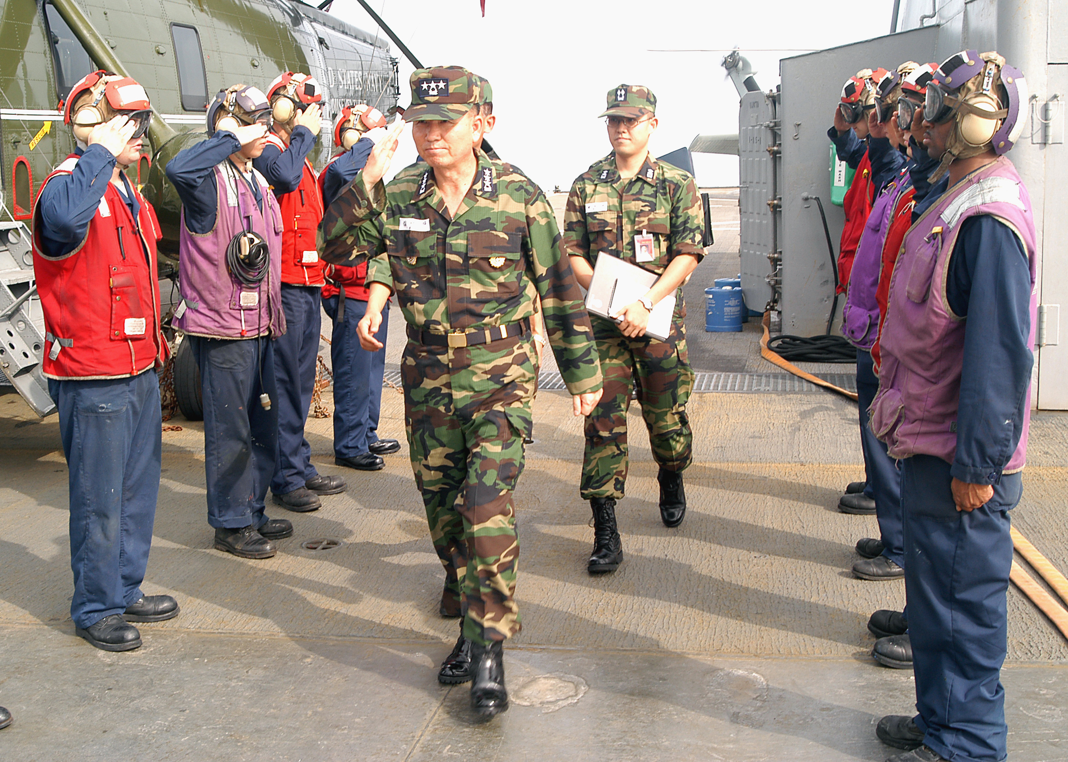 030821-N-9860Y-008 Yellow Sea (Aug. 21, 2003) -- "Rainbow" sideboys render a hand salute aboard the amphibious warfare ship USS Blue Ridge (LCC-19) for the arrival of... Vice Admiral Sung Man Kim [, Commander in Chief Republic of Korea Fleet]. U.S. Navy photo by Photographer's Mate Airman Apprentice Tucker Yates. (RELEASED) (